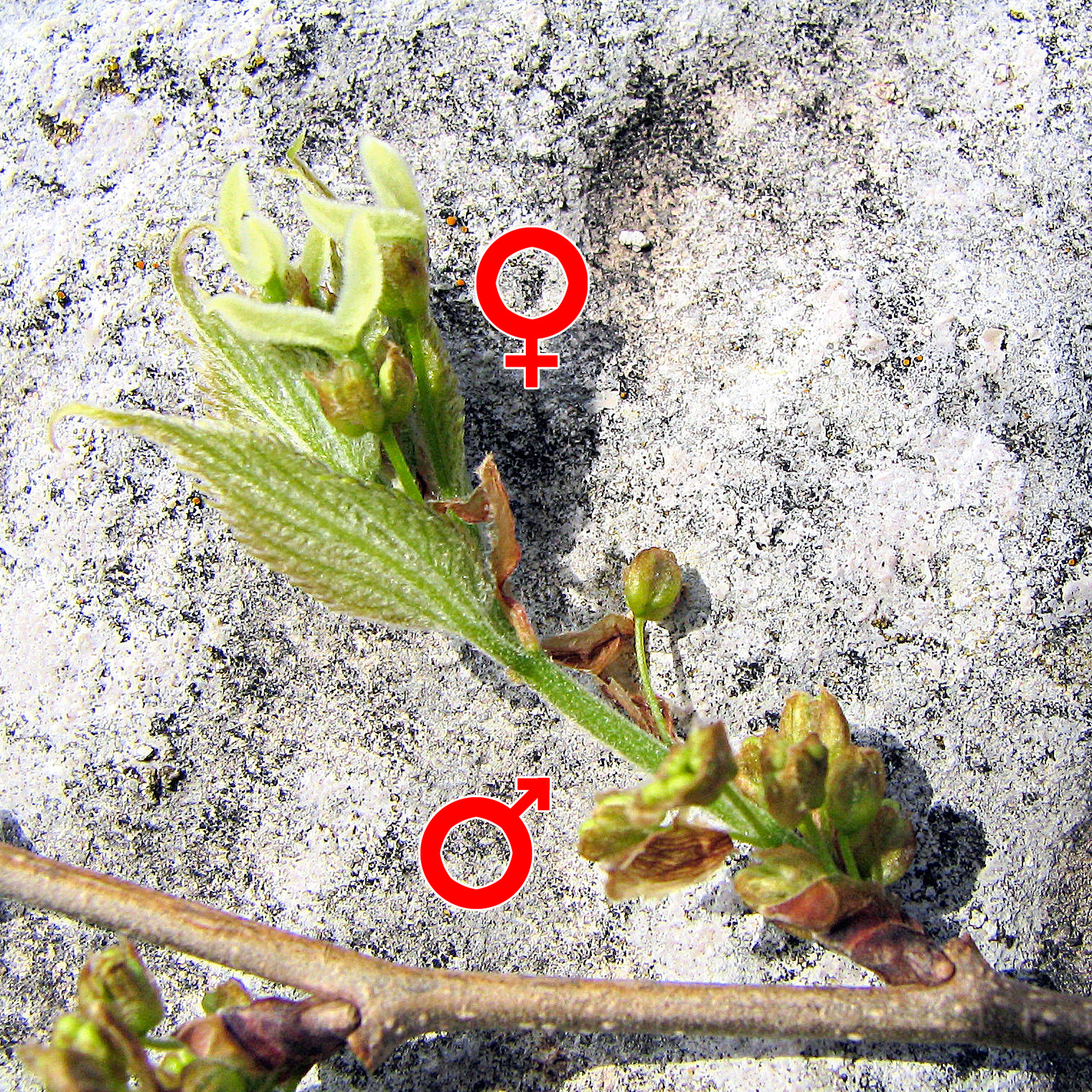 Female (up) and male (down) flowers of Celtis australis (Dobrota, 8-4-2005)